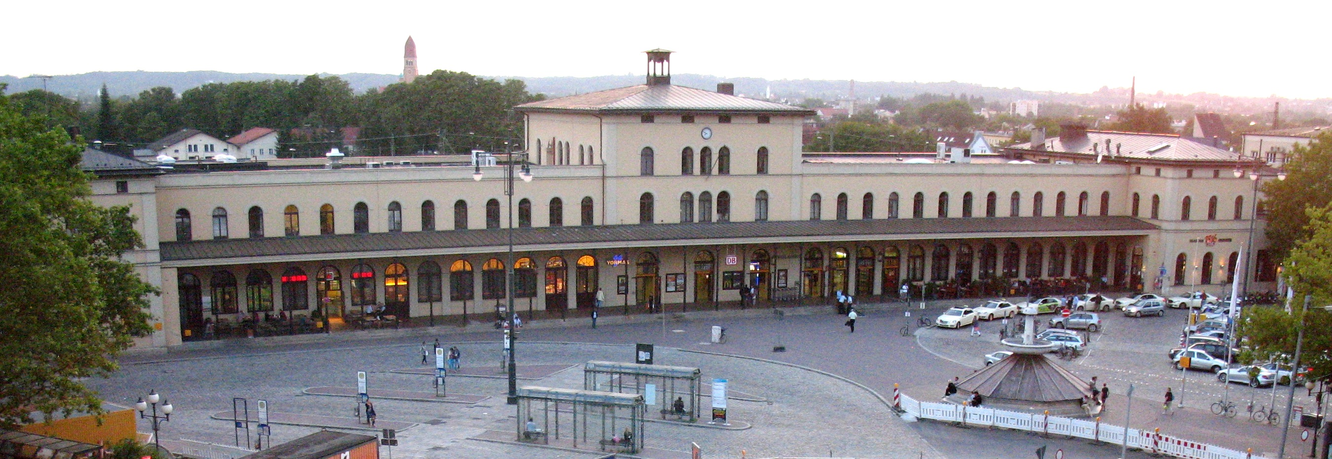 Main station of Augsburg (2013).